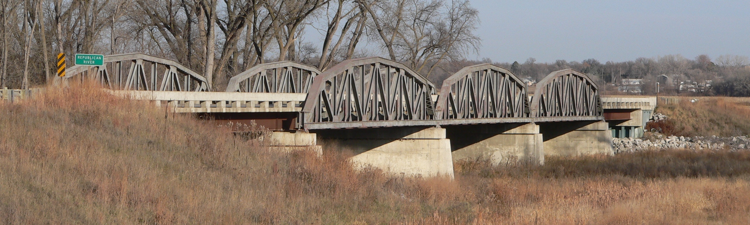 Franklin Bridge, carrying Nebraska Highway 10 over the Republican River, about one mile south of Franklin, Nebraska; seen from the southeast (downstream). The Warren pony truss bridge was built in 1932 by the Nebraska Bureau of Roads & Bridges. It is listed in the National Register of Historic Places.